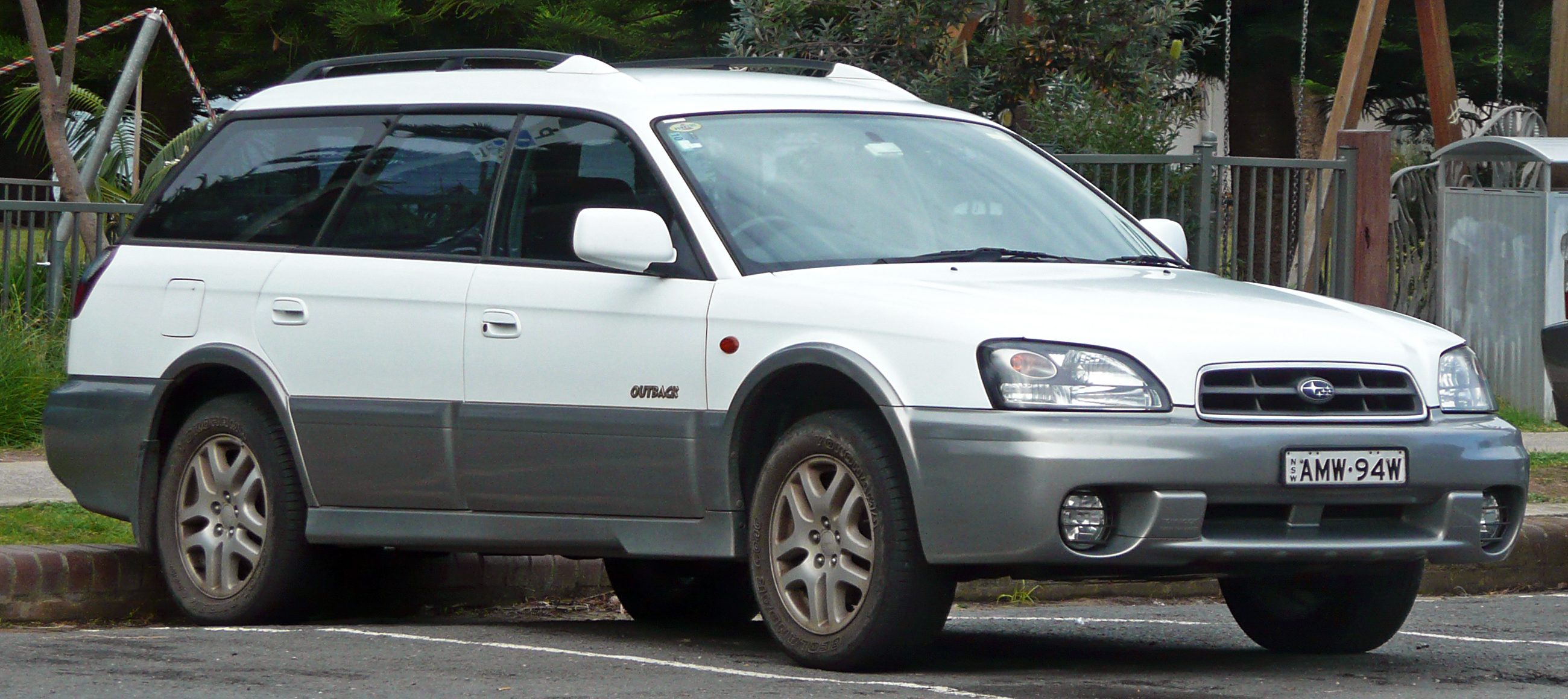 2002 Subaru Outback (BH9 MY03) station wagon. Photographed in Cronulla, New South Wales, Australia.